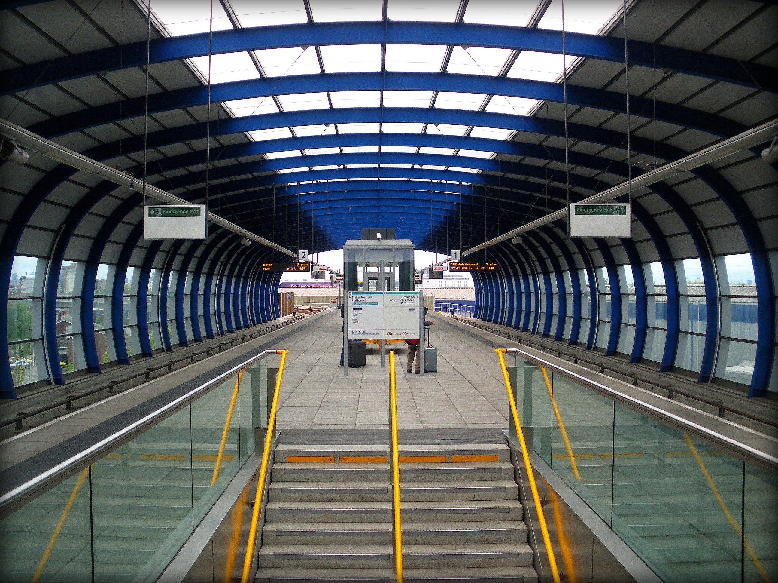 Docklands Light Railway (DLR) Overview Type light metro and light rail/rapid transit Locale Greater London Stations 40 Services Bank-Lewisham Bank-Woolwich Arsenal Stratford-Lewisham Tower Gateway-Beckton Operation Opened 31 August 1987 Owner DLR Ltd; part of Transport for London (TfL) Operator(s) Serco Docklands Ltd Depot(s) Poplar Beckton Rolling stock DLR rolling stock Technical Line length 34 km (21 mi) Track gauge 1,435 mm (4 ft 8+1⁄2 in) Standard gauge Electrification third rail, 750 V DC Operating speed 80 km/h (50 mph) [show] [v • d • e] Docklands Light Railway Legend All stations have step-free access The Docklands Light Railway is an automated light metro or light rail system opened on 31 August 1987 to serve the redeveloped Docklands area of East London, England.[1] It covers several areas of London, reaching north to Stratford, south to Lewisham, west to Tower Gateway and Bank in the City of London financial district, and east to Beckton, London City Airport and Woolwich Arsenal. The DLR is operated under a concession awarded by Transport for London to Serco Docklands Ltd, a joint organisation of the former DLR management team and Serco Group. The system is owned by DLR Limited, part of the London Rail division of Transport for London (TfL) which also manages London Overground and London Tramlink (but not London Underground, which is a separate division of TfL). In 2006 the DLR carried over 60 million passengers[2]. It has been extended several times, with work and proposals continuously ongoing. Although it has some similarities to other public transport systems in London such as the London Underground, DLR trains are not compatible with either the Underground network, Crossrail or the wider railway network in Britain. BY WIKIPEDIA! ENJOY! LONDON AND THE DLR PLUS YOU AND US! ENJOY!:)